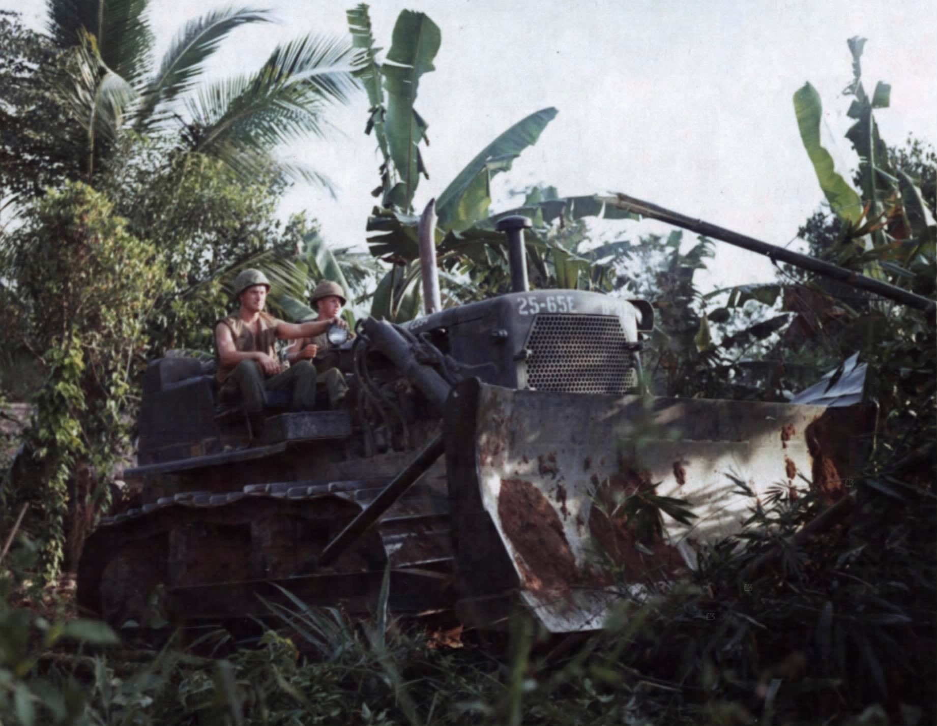 During Operation Cedar Falls, "B" Company, 65th Engineer Battalion clear vegetation from around the town of Phu Hoa Dong with a D-7 bulldozer.